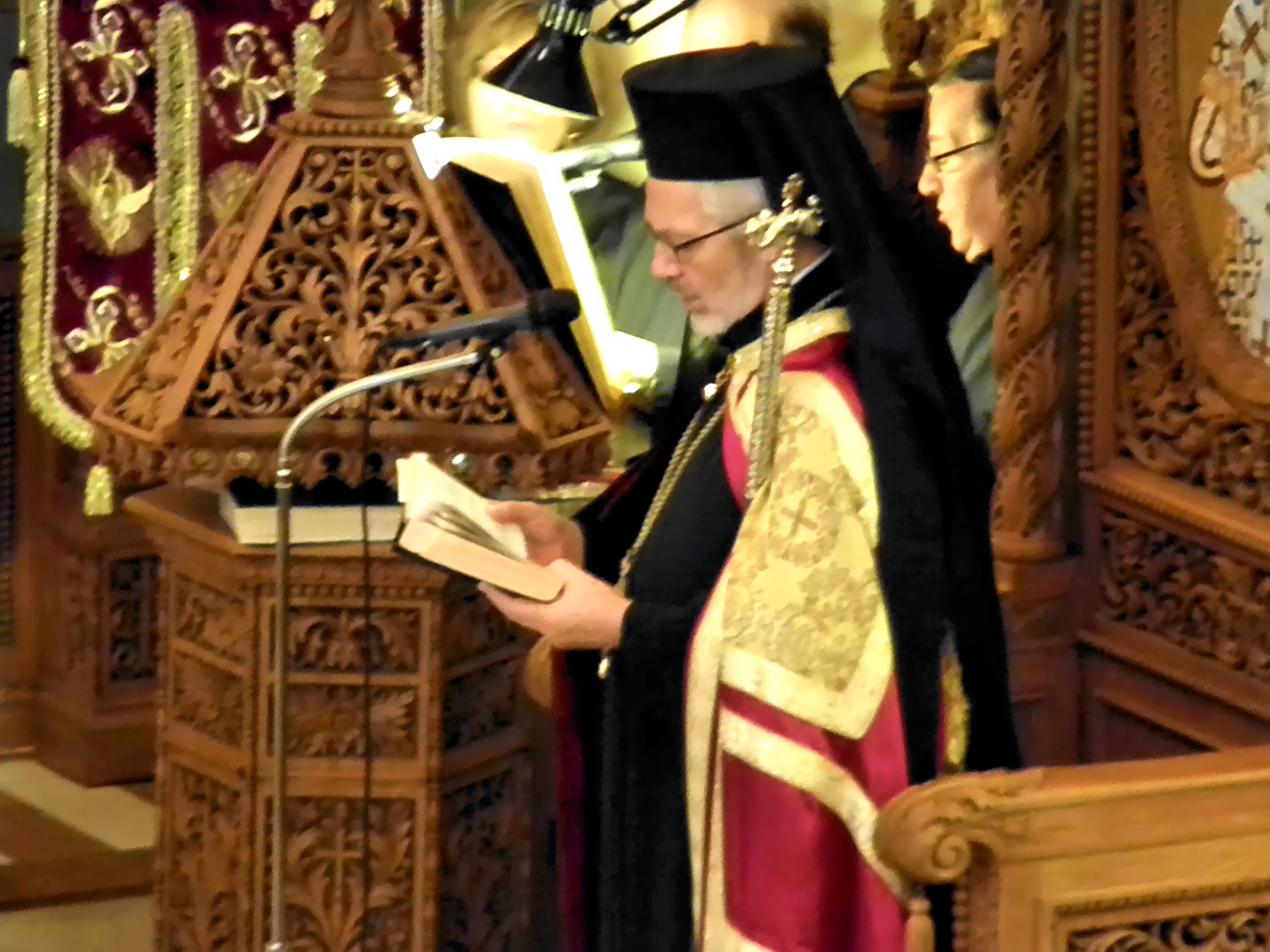 His Eminence Metropolitan Sotirios (Athanassoulas) of Toronto and Exarch of All Canada, at the Holy Friday evening service (the Lamentations at the Tomb (Greek: Επιτάφιος Θρήνος)). Annunciation of the Virgin Mary Greek Orthodox Cathedral, Toronto, Ontario, Canada.